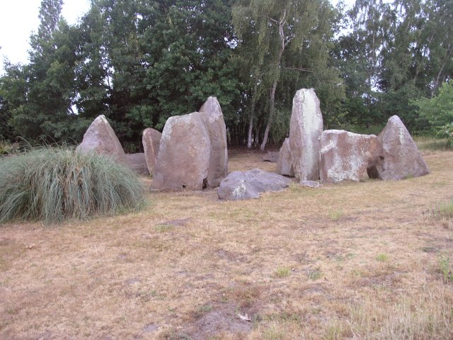 A Long Barrow. This has got to be the most impressive garden feature I've seen. In the grounds of a private residence, this is the best preserved long barrow in this area of Kent. What remains is the stone structure, which originally would have been covered by earth. 1,500 years older than Stonehenge, this is an ancient burial chamber built using local stones and originally covered by earth, with the chamber itself being between the two middle stones and the other stones supporting the earth structure. The central stones are about 3m tall and would have originally been topped by a capping stone (now just visible in the picture on the ground behind the stones). There are many other barrows in this area of Kent, but this has been re-built in the 1950s when the barrow was archaeologically investigated.